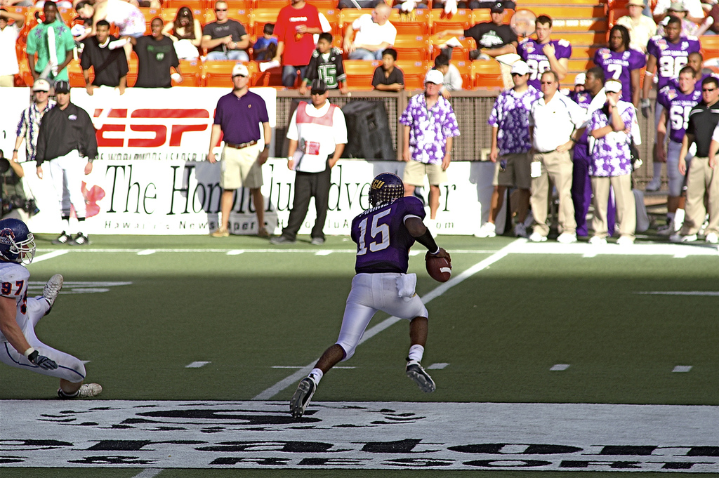 Boise State University vs East Carolina University - Patrick Pinkney running